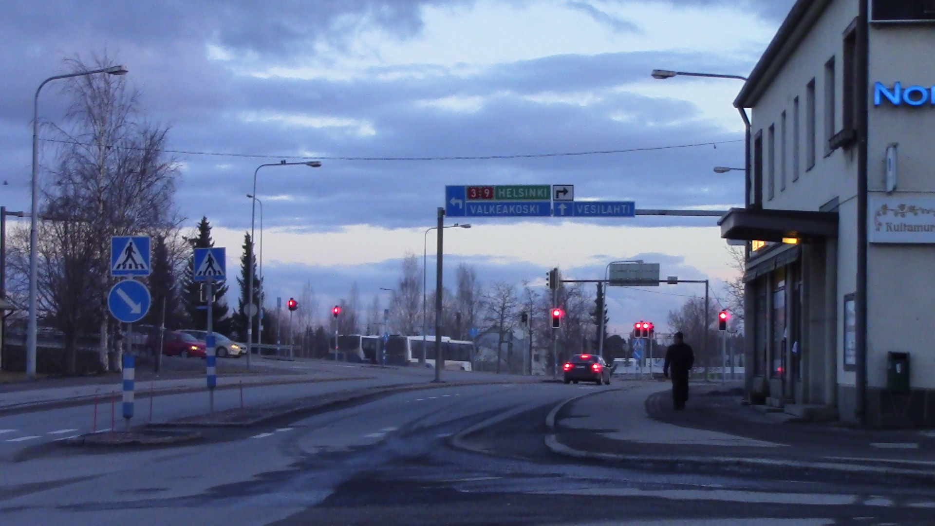 Finnish connecting road 3024 in Lempäälä. The road runs from Lietsamo to Kuokkala.